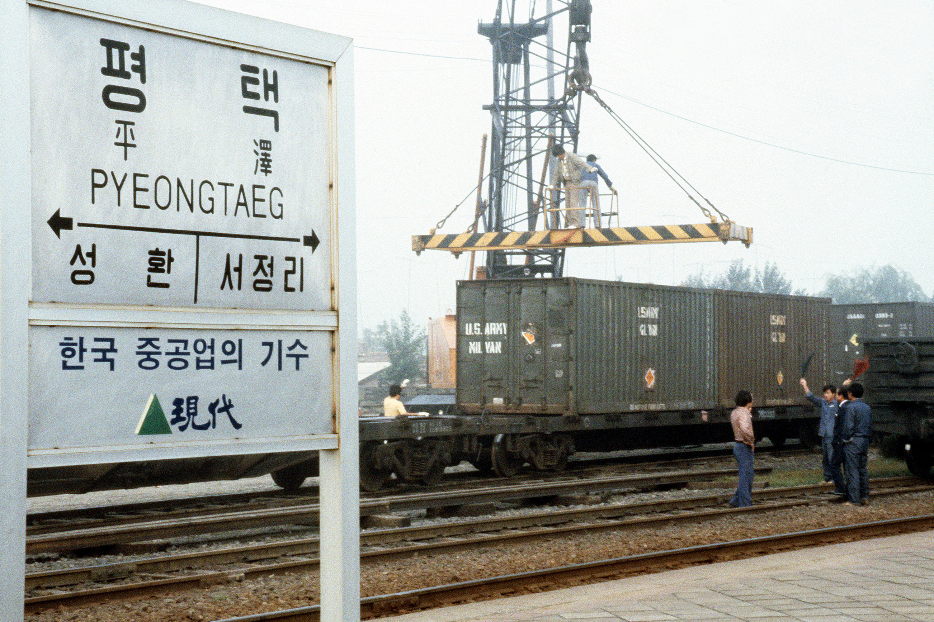 Military Vans are transferred from railroad cars to trailers from the Army 25th Transportation Center. They contain a munitions shipment that arrived at the Chinhae Water Port. The original finding aid described this photograph as: Base: Pyeongtaeg Railroad Yard Country: South Korea Scene Camera Operator: MSGT Curt Eddings Release Status: Released to Public